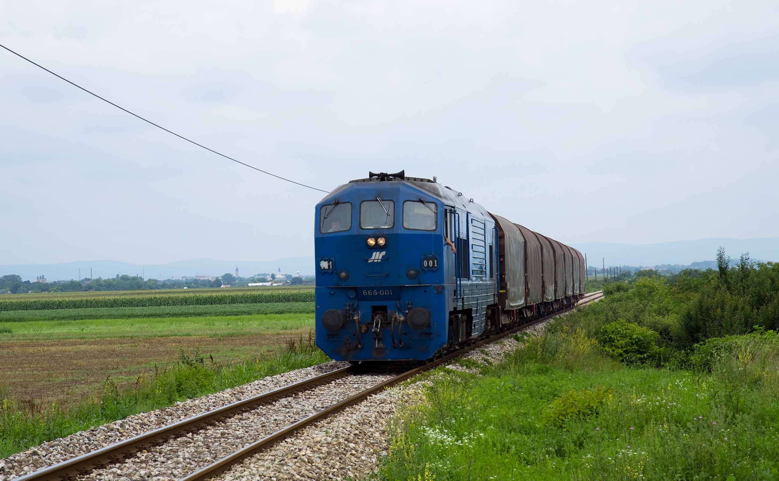 Former Jugoslovenske Železnice, now Železnice Srbije class 666 "Tito's locomotive" with a freight train near Ruma.